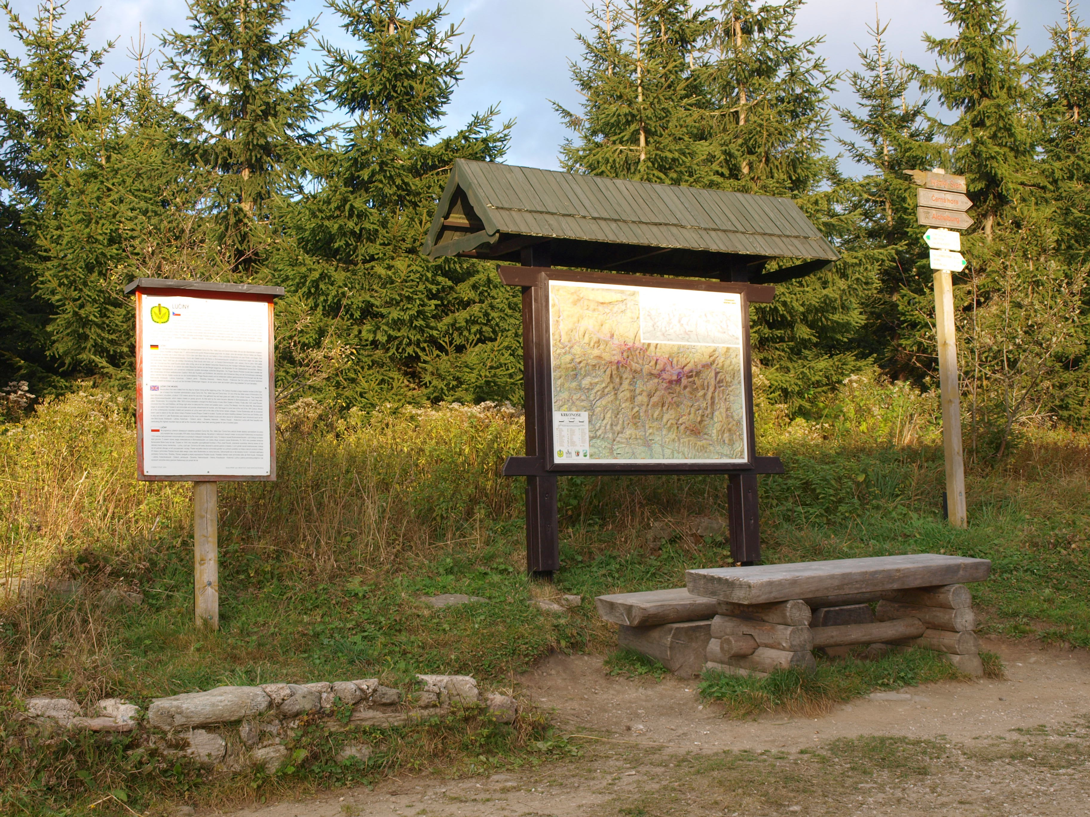 Touristic resting place near Pražská bouda, Krkonoše